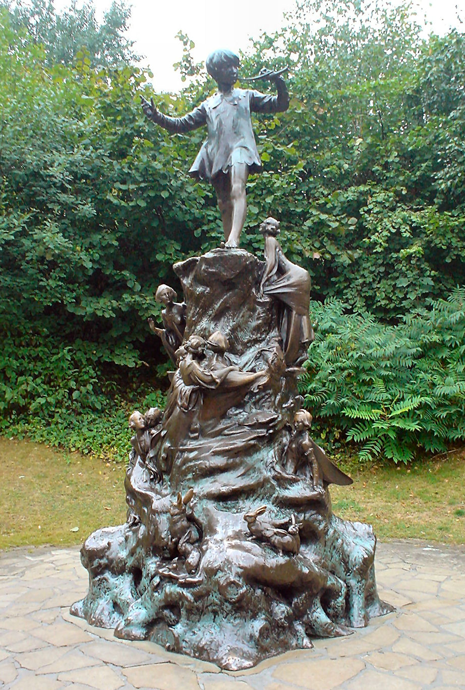 Statue of Peter Pan in Kensington Gardens, London